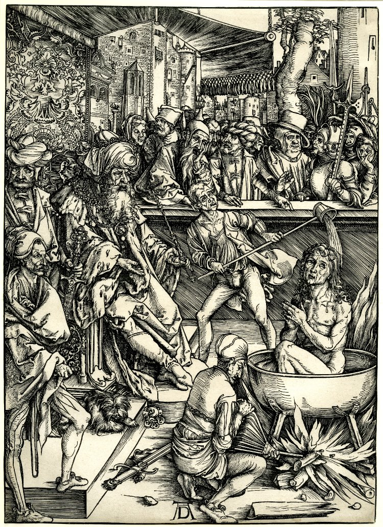 Does not refer to the Revelations, but an event in the life of the saint. The Roman emperor Domitian sitting on his throne on the left. According to legend, John was sentenced to be boiled in a cauldron of oil for his refusal to worship pagan gods. He remained unharmed by this ordeal and was set free.